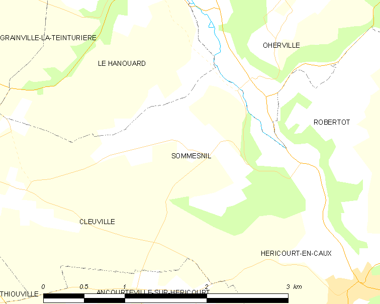 Map of French municipality Sommesnil